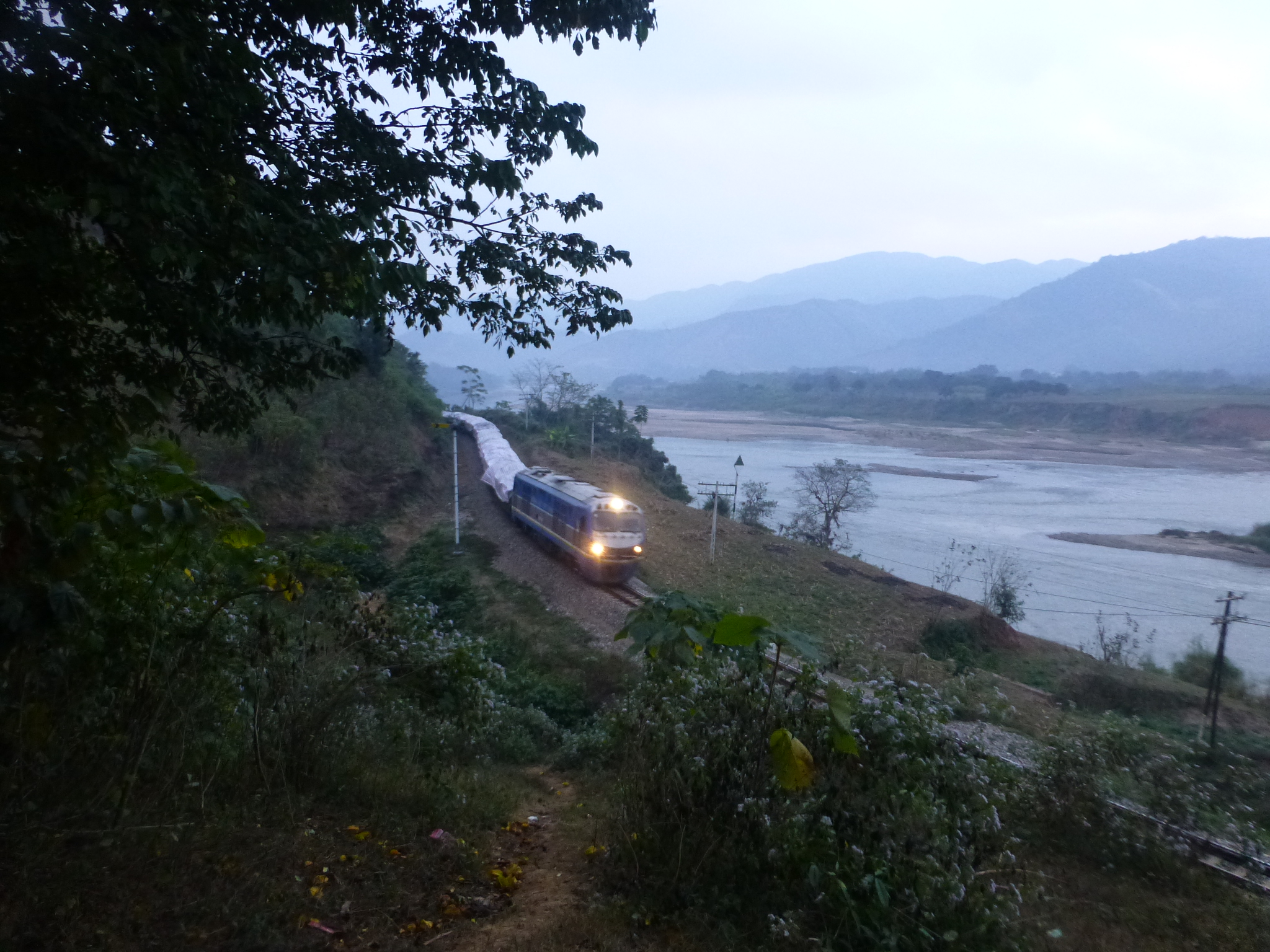 The Hanoi-Lao Cai Railway following the left shore of the Red River in Kim Sơn Rural Commune, Bảo Yên District, Lao Cai Province. (Photo taken from the rural road between Phố Lu and Bao Ha).